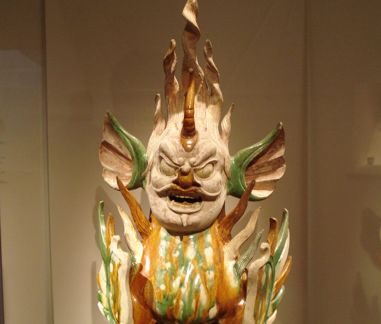 A Chinese sancai glazed earthenware statue of a tomb guardian, from the Tang Dynasty, dated 8th century AD.